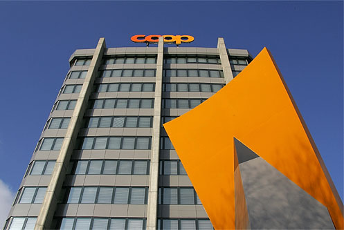 Coop corporate office building in Basel